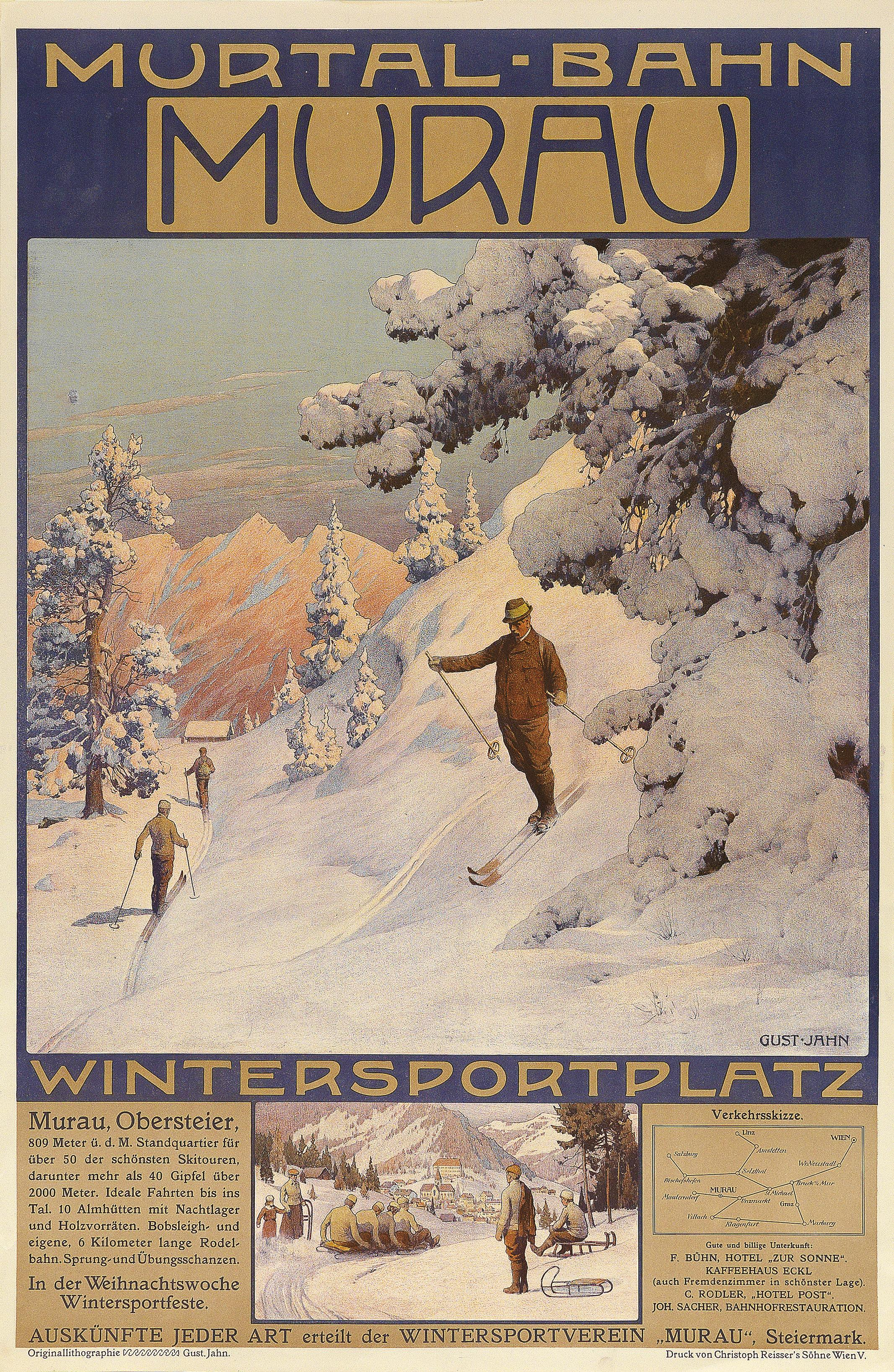 Austria